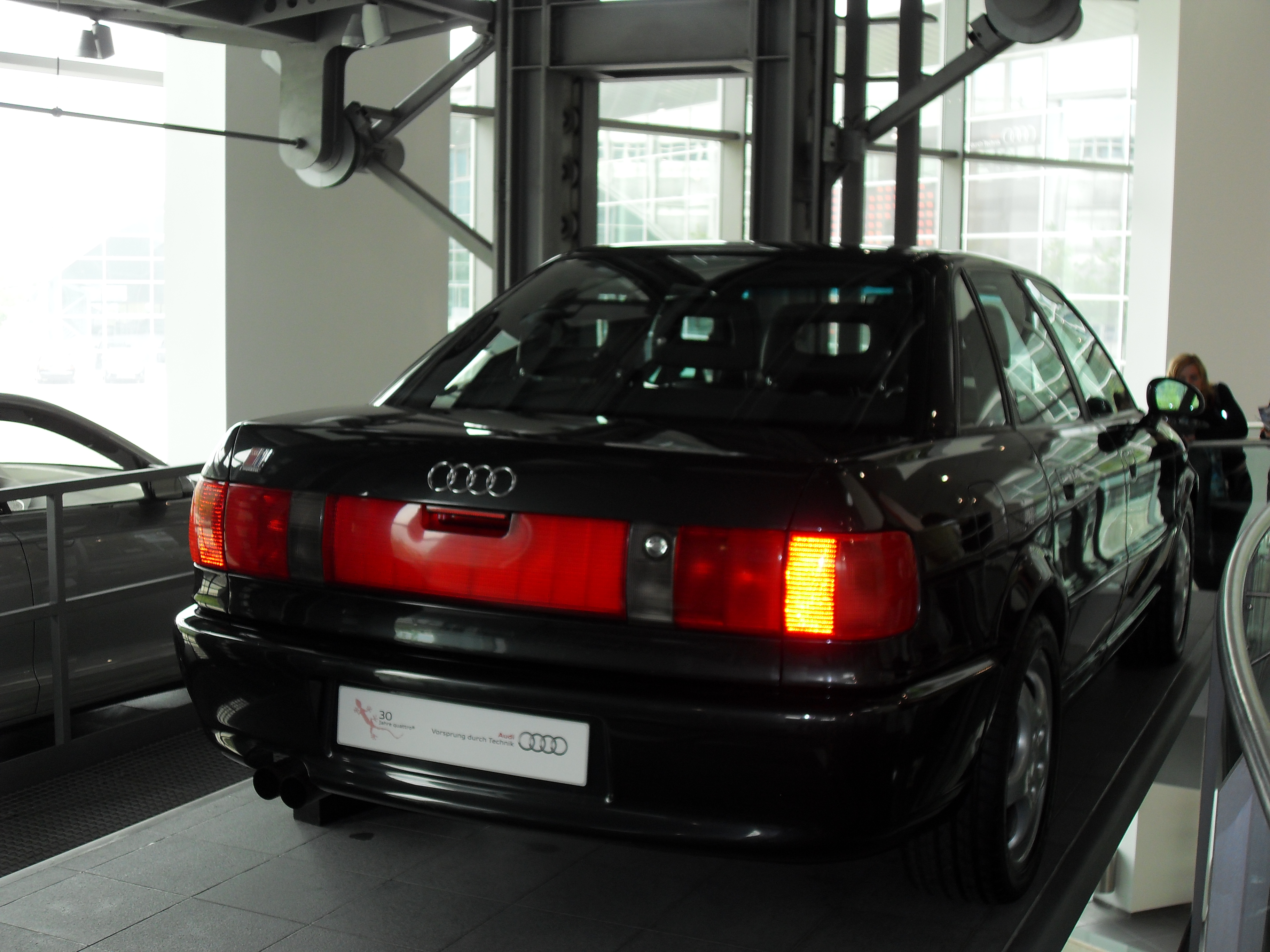 Audi RS2 Sedan